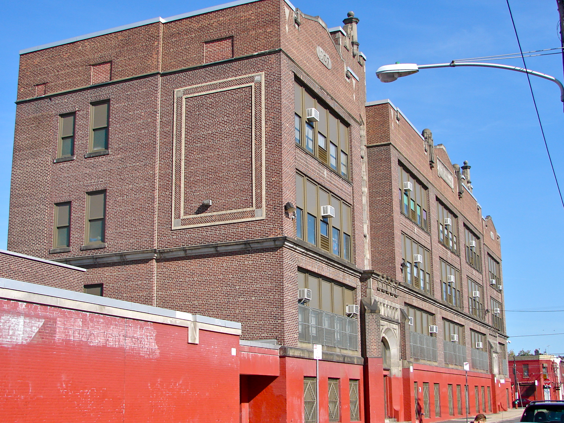 Bayard Taylor School in Philadelphia on the NRHP since November 18, 1988. At 3698 N. Randolph Street in the Hunting Park neighborhood of North Philly.